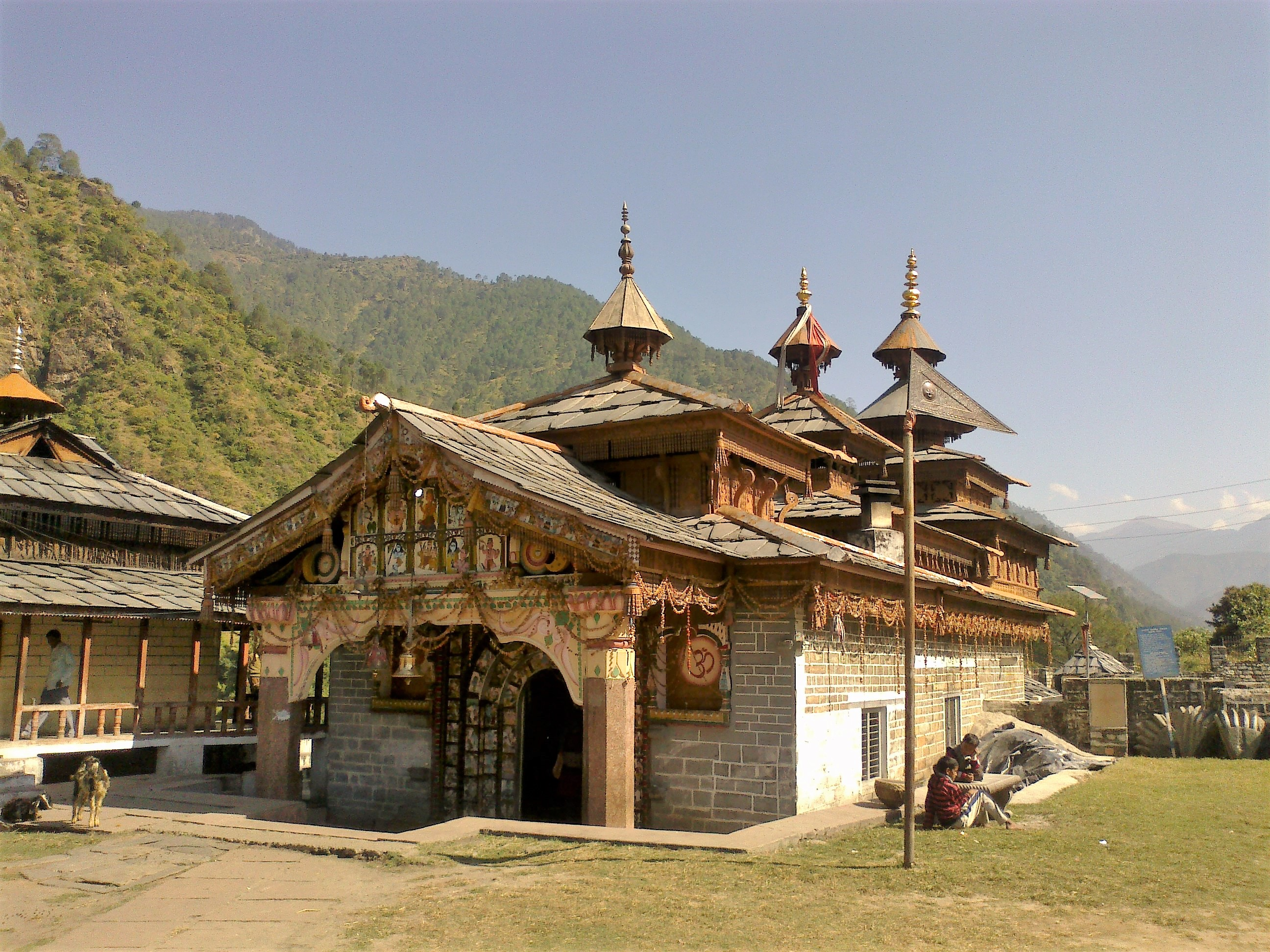 Mahasu Devta temple came into existence in 9th Century